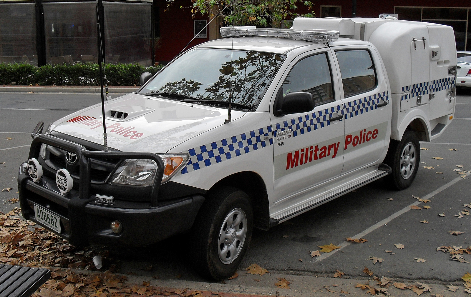 2005–2008 Toyota Hilux (KUN26R) SR 4-door cab (Military Police), photographed in New south Wales, Australia.